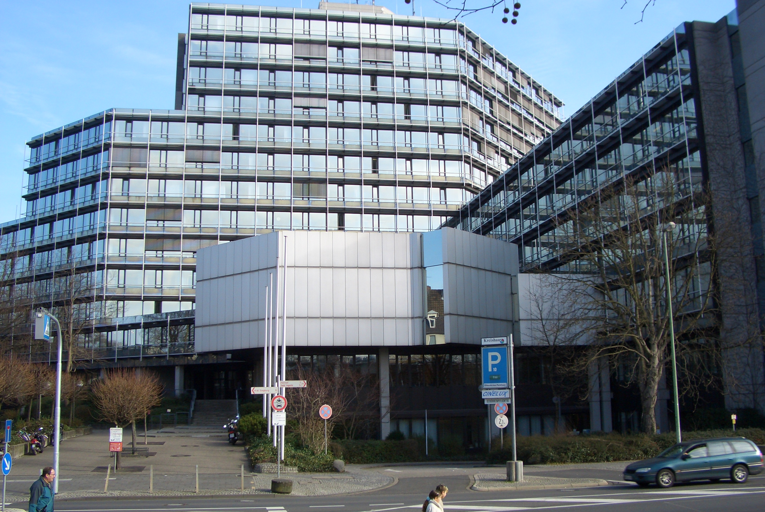 Photo of the building of the administration of district Rhein-Sieg, Germany.